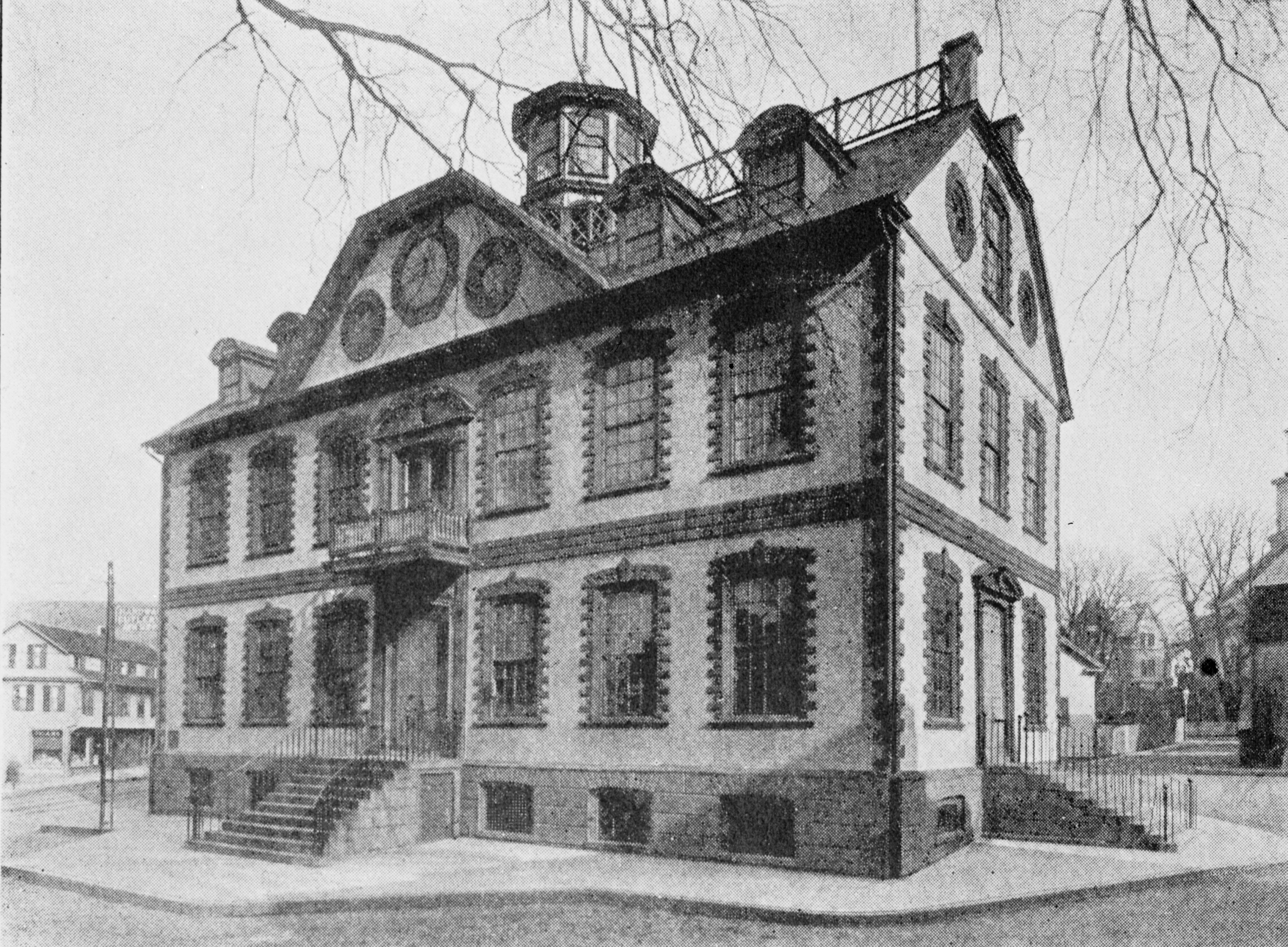 Munday, Richard; Moody, Jim; Isham, Norman Morrison